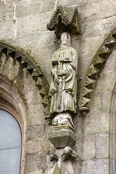 Caballero templario en el exterior de la catedral de Tuy.